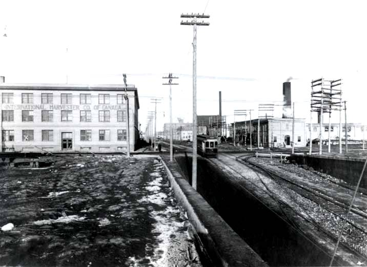 Regina's Warehouse District circa 1912 -- Dewdney Avenue looking north towards Warhouse District